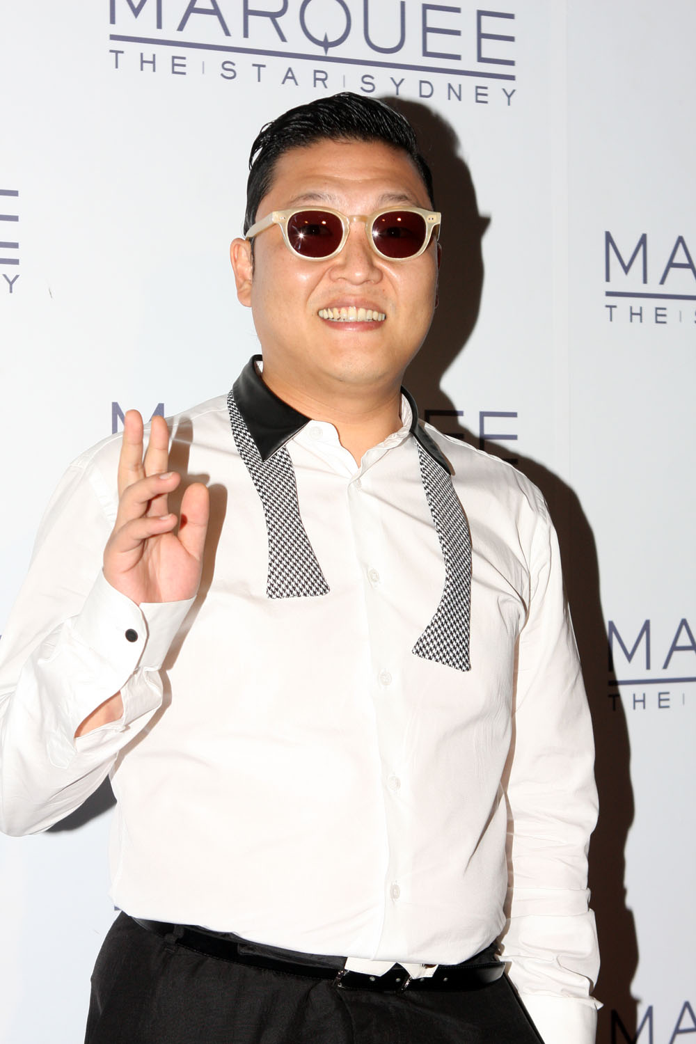 Psy Gangnam Style performs at Marquee, The Star, Sydney, Australia Korean rap music sensation Psy (Park Jae-Sang) performed at Sydney's famous Marquee nightclub at midnight last night. It was obvious one or two VIP's and high rollers were in town, with police having a strong presence in and around the one time casino - now more an integrated entertainment and gaming hub, complete with nightclubs and entertainment attractions a plenty. The only thing - person Marquee Sydney and The Star was missing was Psy, and now that's complete how will they top that! We hear maybe with KISS, The Rolling Stones and / or Blondie and Pink, but that's just rumour at this stage... but do expect at least one of those big time acts to follow in Psy's footsteps. The music video for "Gangnam Style" is the most viewed K-pop video on YouTube, and also the most "liked" video on the site. Published on July 15, 2012, the video has over 480 million views, and more than 4.1 million "likes." Psy has appeared on numerous television programs, including The Ellen DeGeneres Show, Extra, Good Sunday: X-Man, The Golden Fishery, The Today Show, Saturday Night Live and Sunrise. Stay tuned and don't change your dial for more hot news on Psy and more of the world's top entertainment attractions. Websites Psy official website Marquee Sydney Eva Rinaldi Photography Flickr Eva Rinaldi Photography Music News Australia